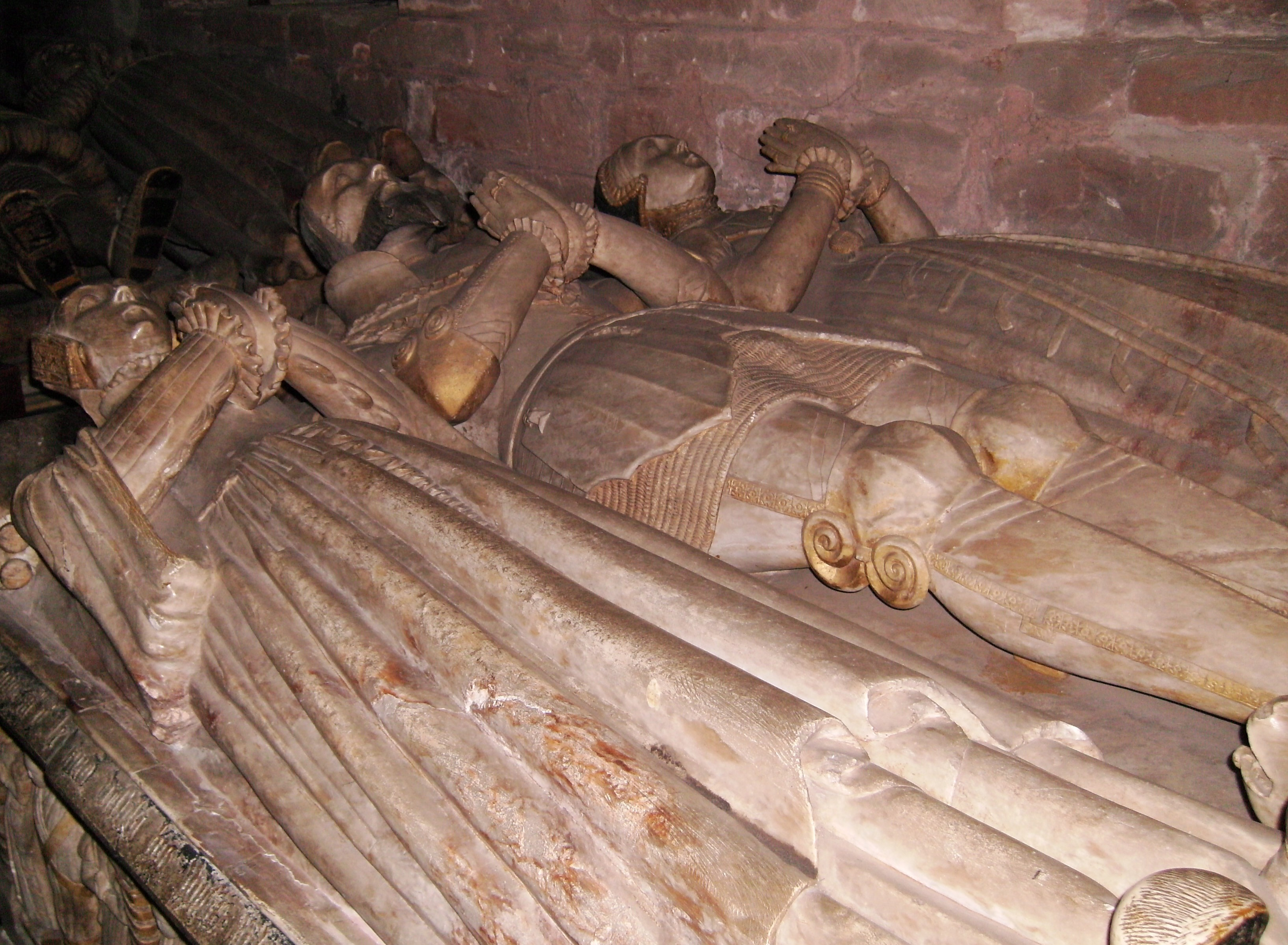 Sir Thomas Giffard, died 1560, flanked by his wives, Dorothy and Ursula. A notable Recusant leader, buried in St Mary and St Chad's church, Brewood, Staffordshire, England.